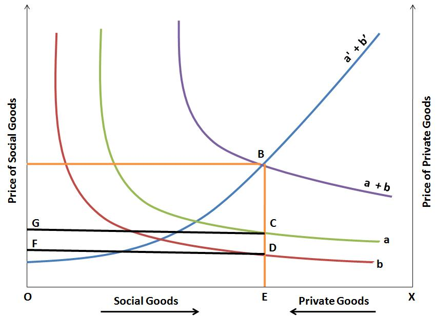 This graph describes Bowen's taxation model